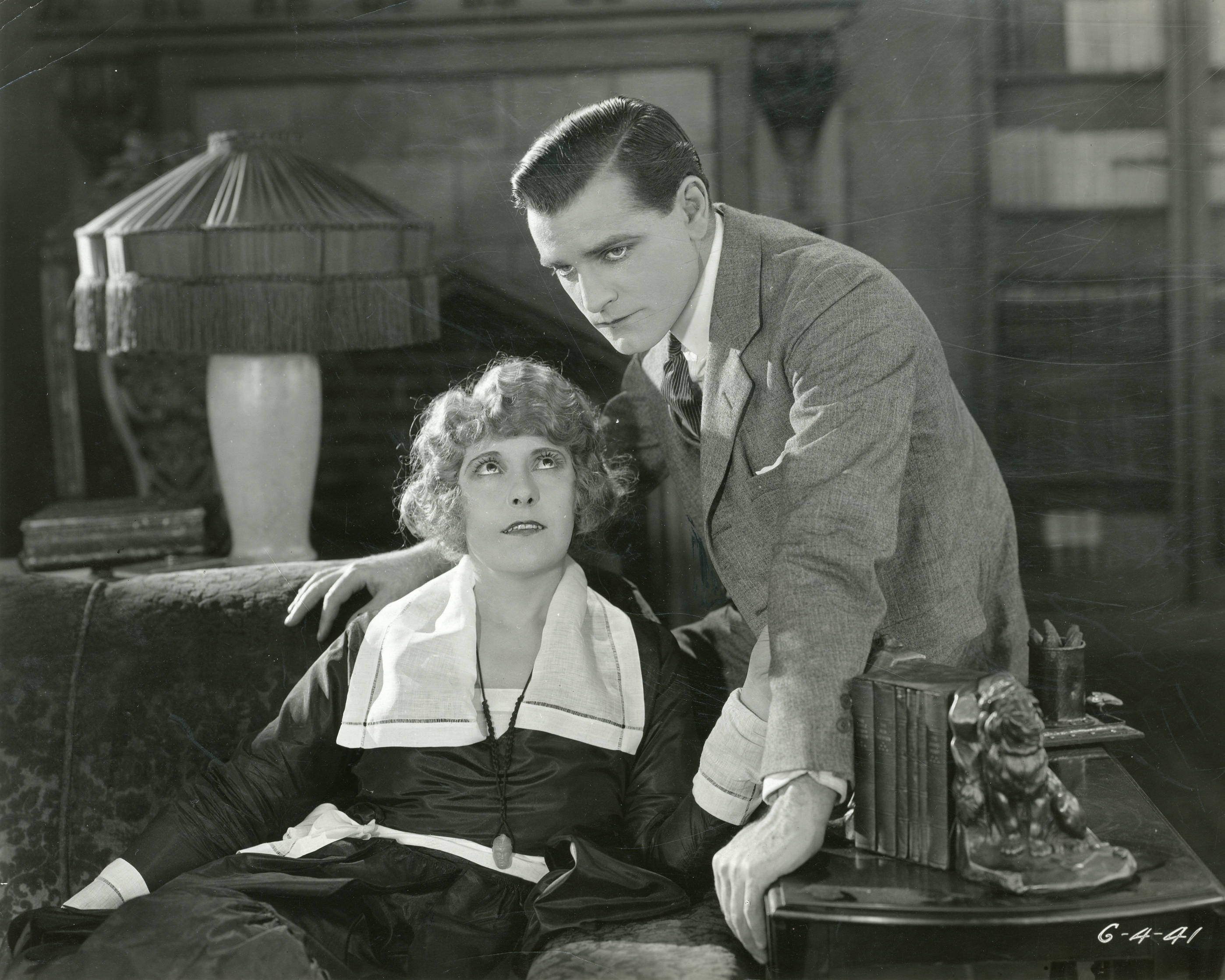 A scene from the American melodrama film Know Your Men (1921) which played at the Colonial Theater, Seattle. Includes Pearl White. Dated Sept. 8, 1921. Subjects: motion pictures, actresses